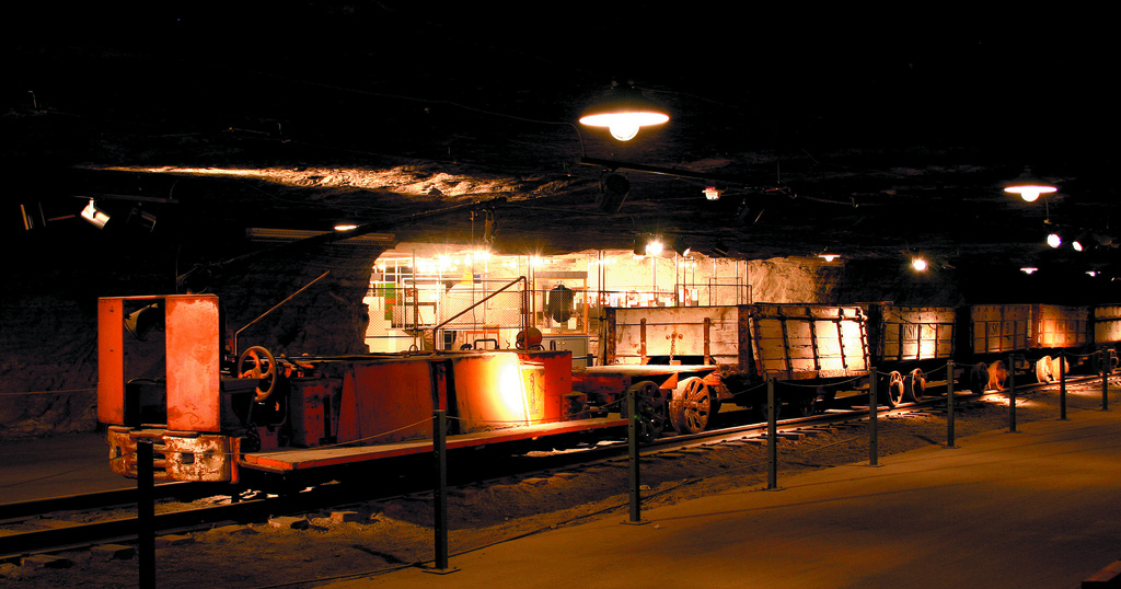 Salt train used to carry people, supplies and salt. License on Flickr (2010-12-30): CC-BY-2.0